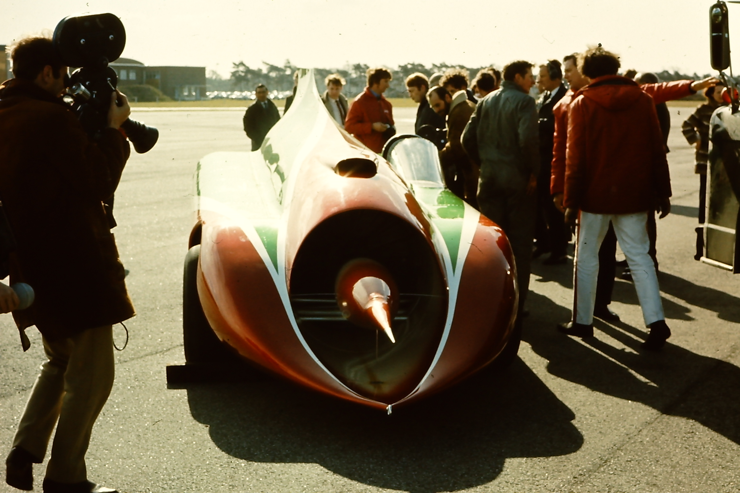 Taken at Bornemouth Airfield